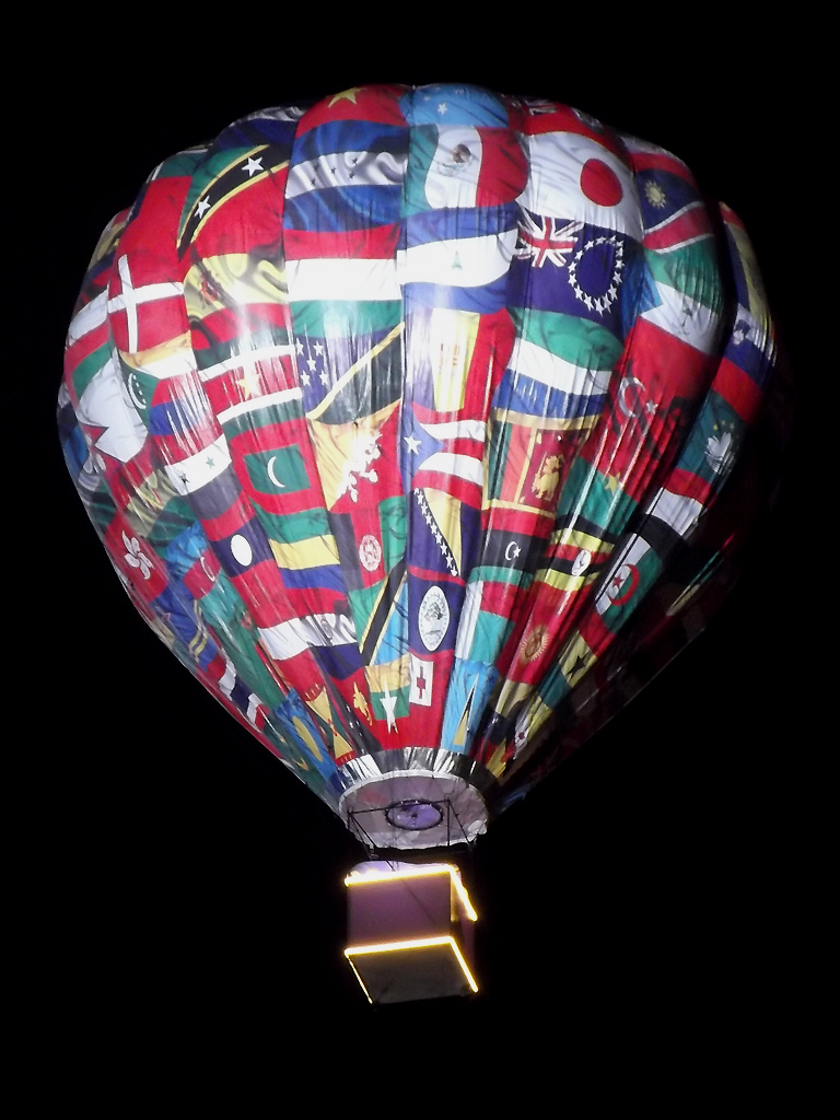 ballon of wishes over Kazan Arena at the closing of 2013 Summer Universiade in Kazan